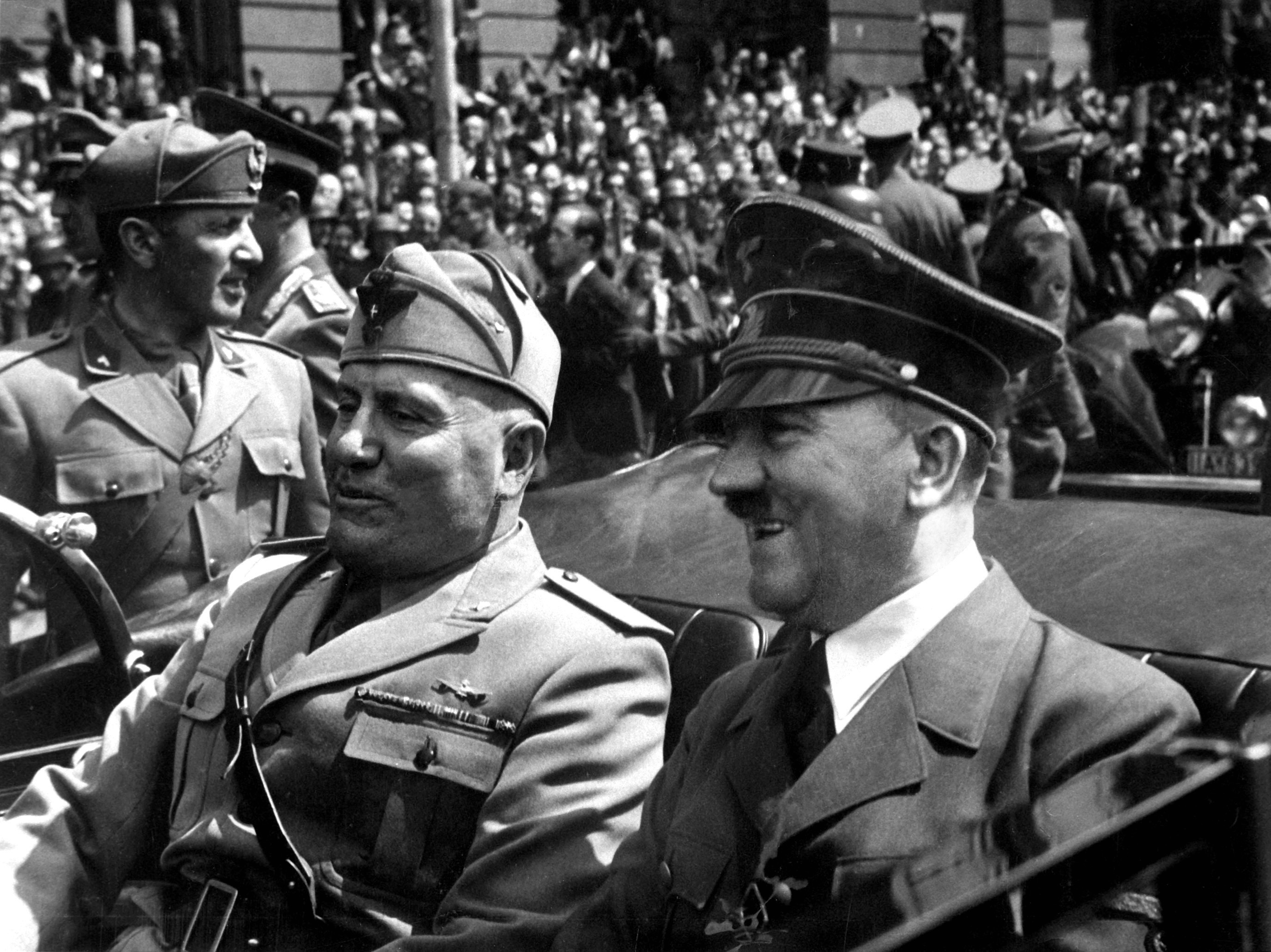 Adolf Hitler and Benito Mussolini in Munich, Germany, ca.